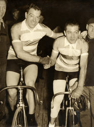 Piet van Kempen (to the left) with the French racing cyclist Paul Broccardo [1902 - 1987] in 1936 during the Six-day bicycle race in Brussels (Belgium).